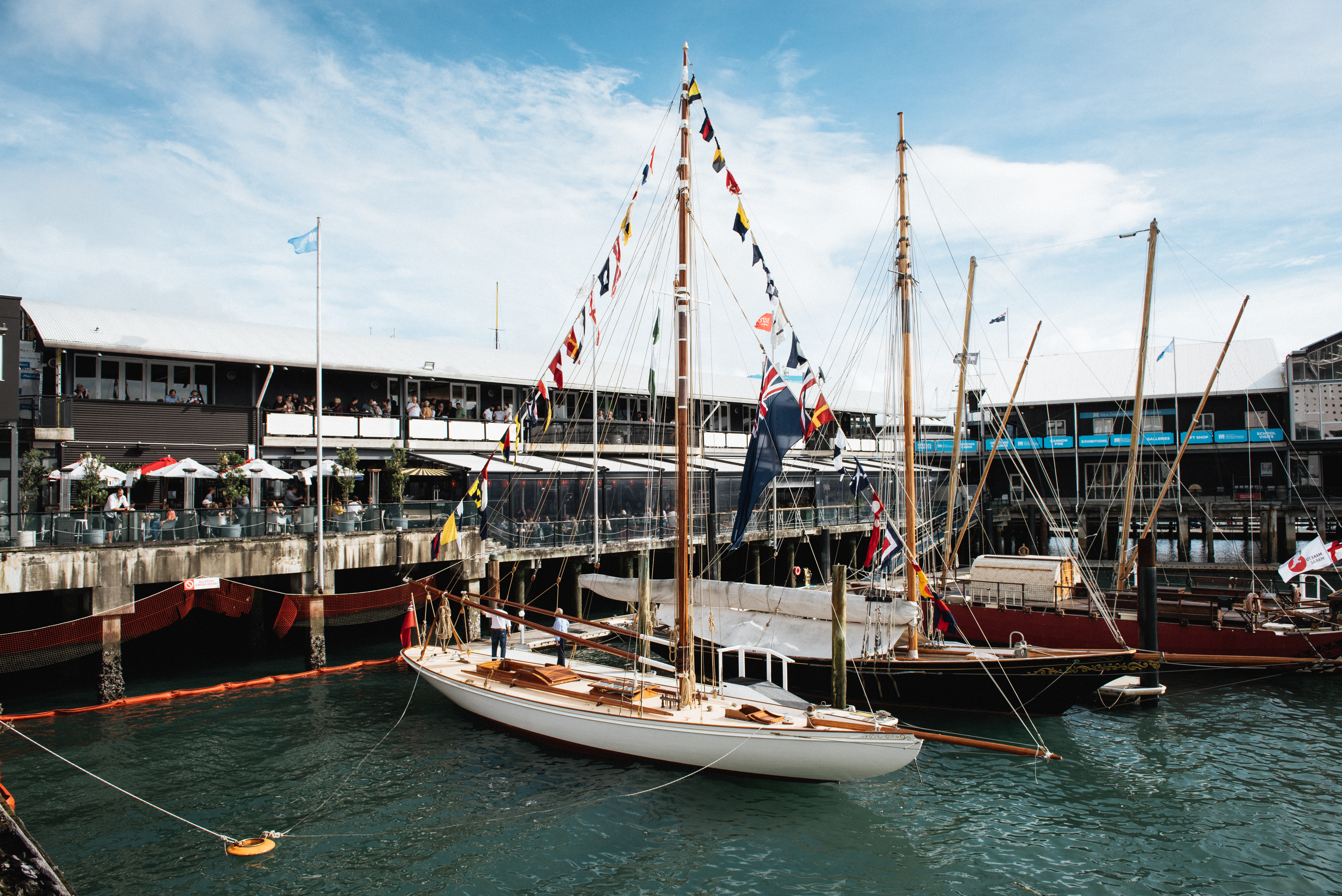 Ariki was relaunched in April 2018 after a year long restoration by Andrew Barnes and Charlotte Lockhart